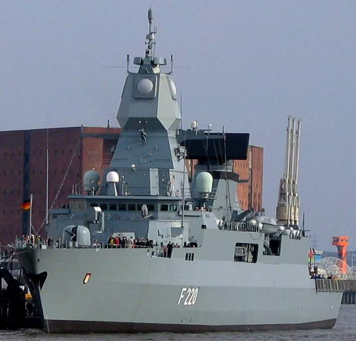 Hamburg (F 220), a German Sachsen-class frigate in Hamburg Harbour.